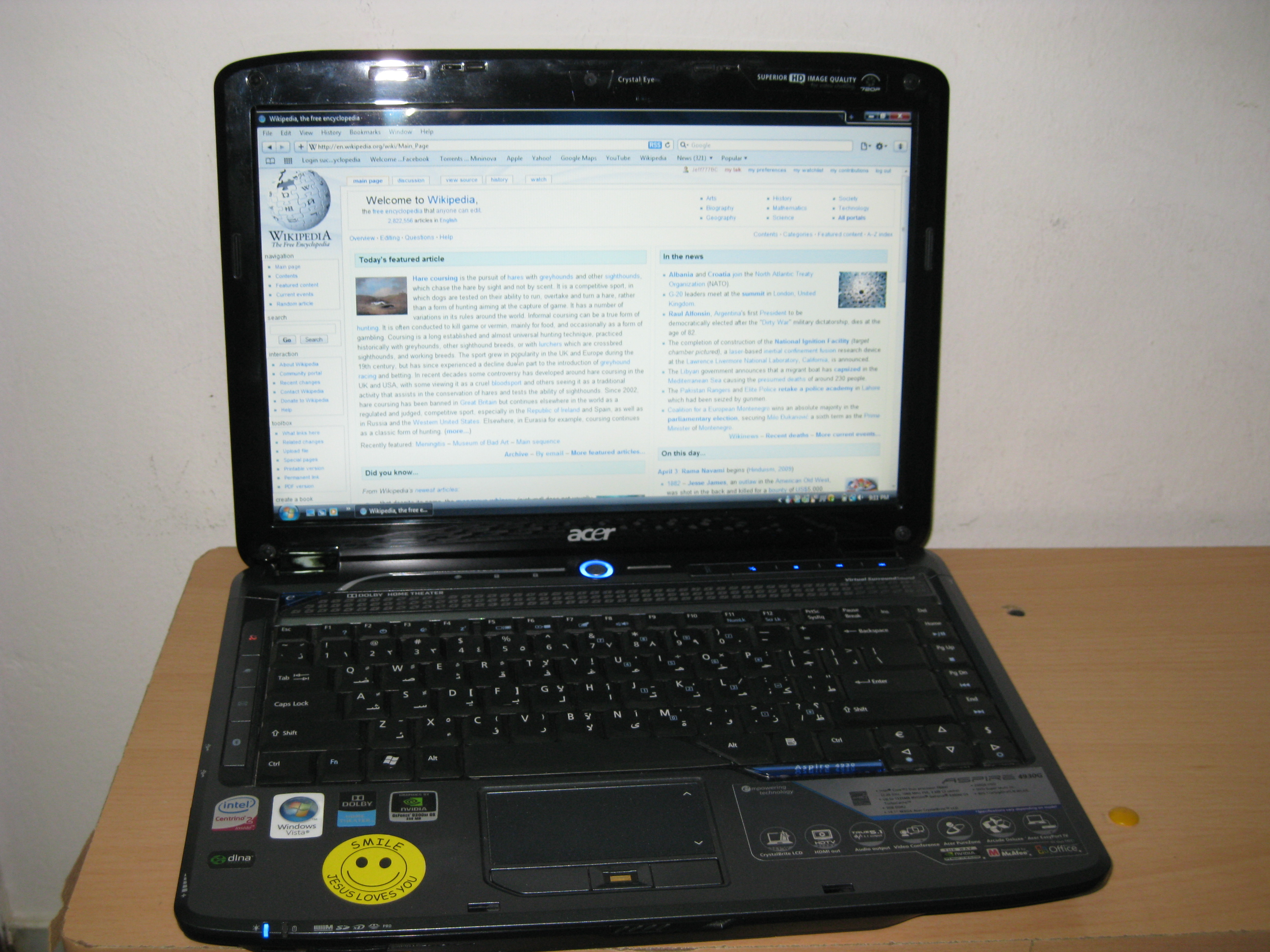 An Acer Aspire 4930G laptop opened, showing the Wikipedia Home Page.